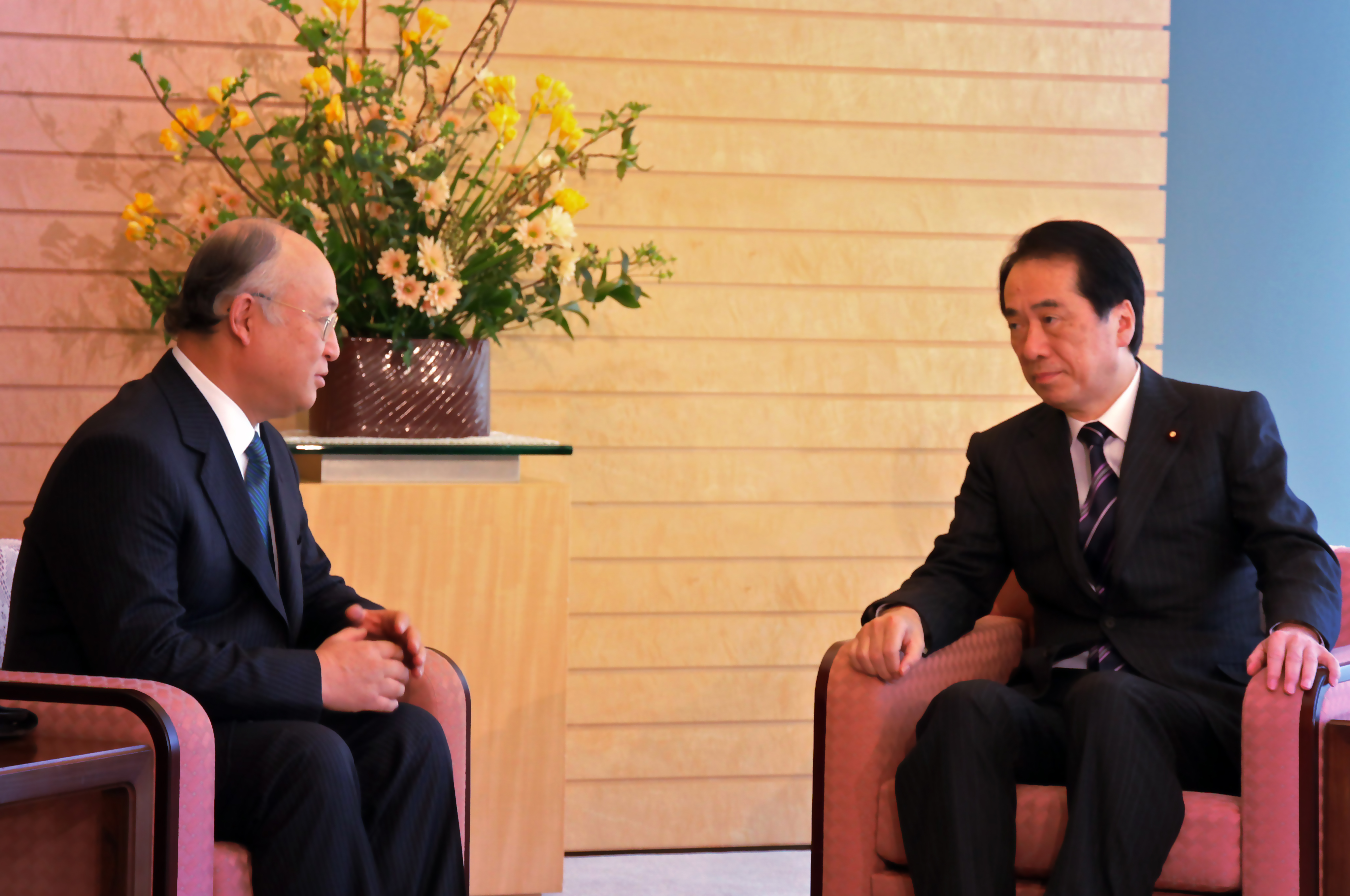 After the 2011 Tōhoku earthquake and tsunami